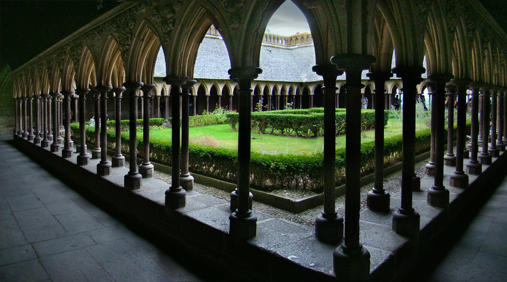 Abbey of Mont-Saint-Michel, Manche, Normandie, France. The cloister.